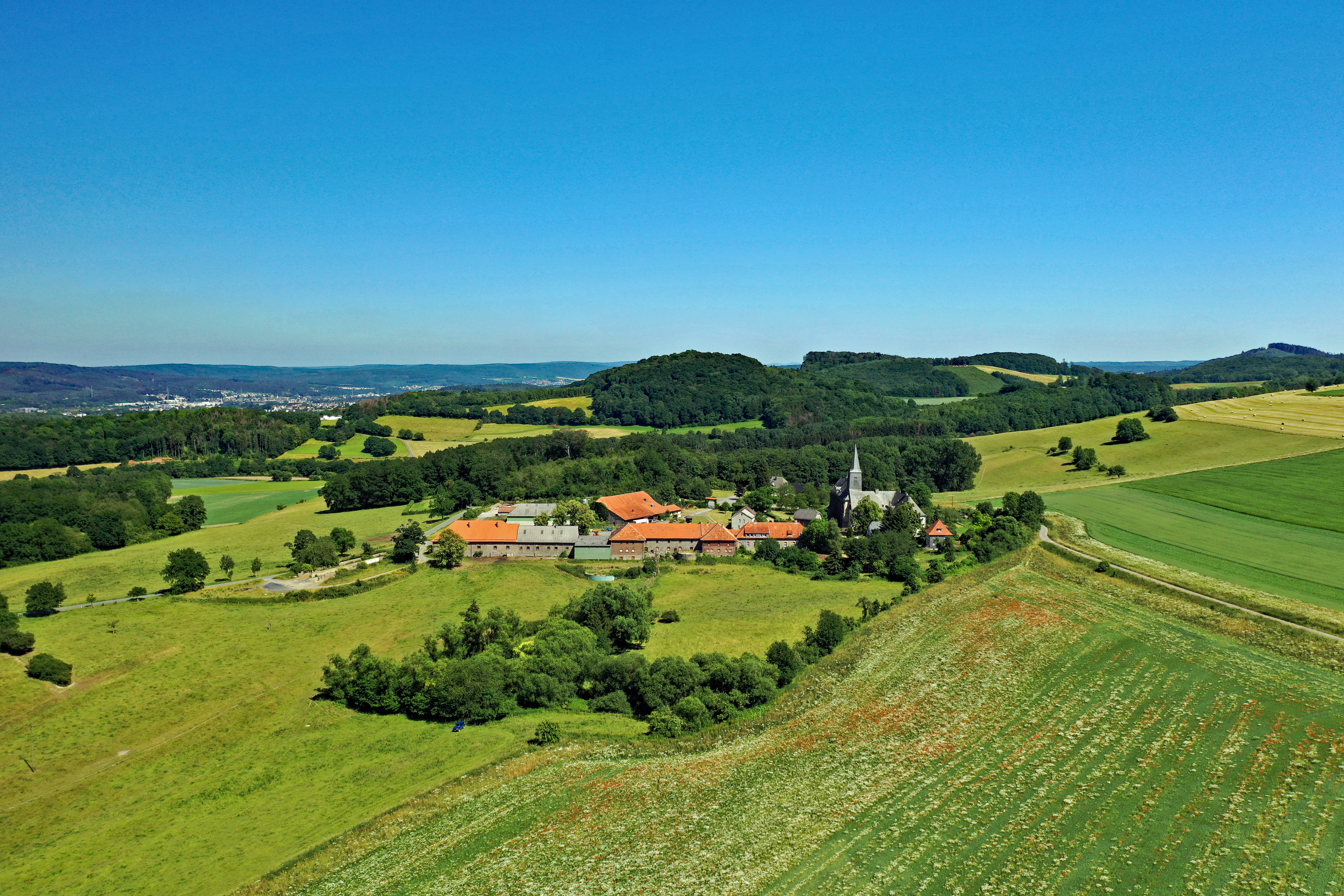 Oelinghausen Abbey (Sauerland, Germany)